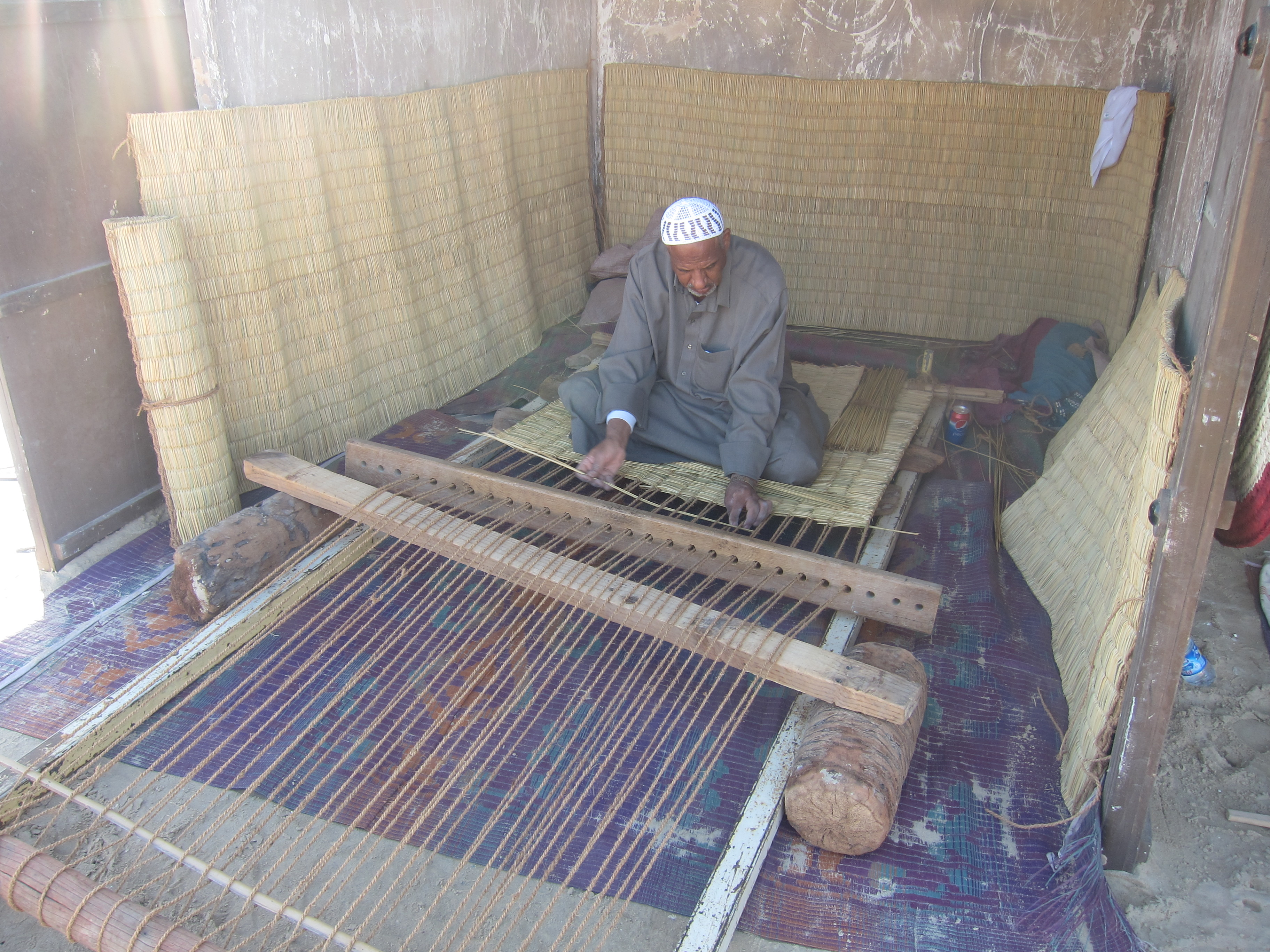 Saudi Culture - സൗദി സംസ്കാരം